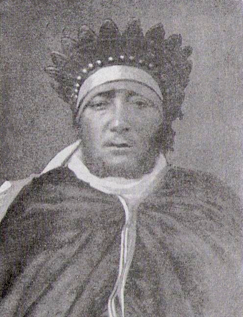 Kawa Tona, last King of Welayta